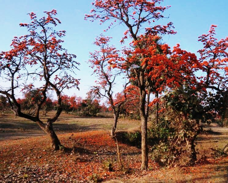 Palash at Baranti jungle, in Purulia, West Bengal, India